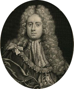 Portrait of Portrait of Henry Somerset, 2nd Duke of Beaufort (1684-1714)